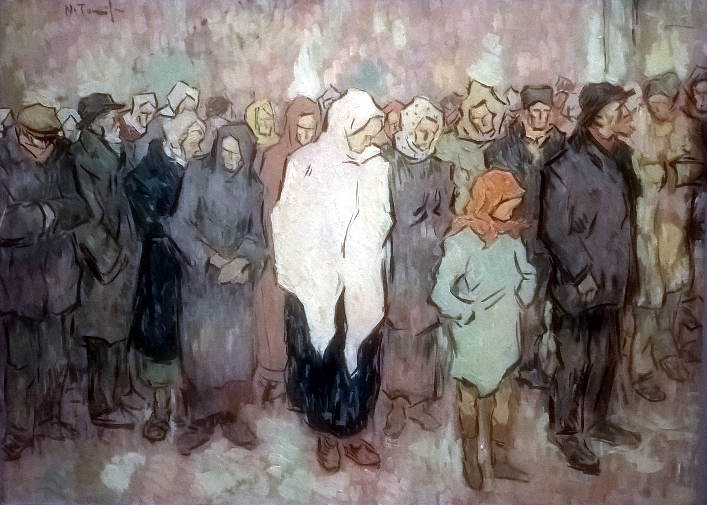 Queuing for bread, oil on canvass.